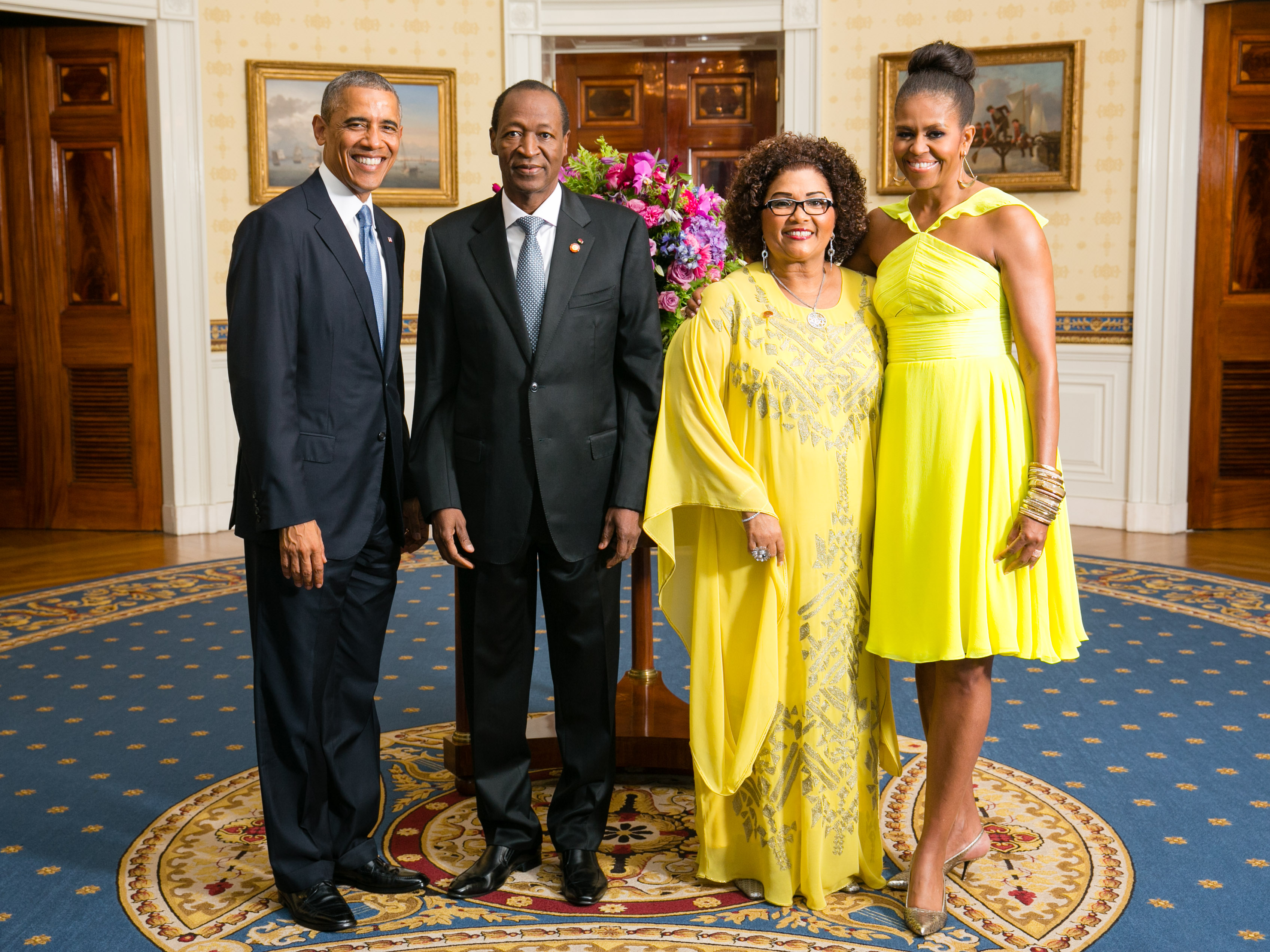 President Barack Obama and First Lady Michelle Obama greet His Excellency Blaise Compaoré, President of Burkina Faso, and Mrs. Chantal Compaoré, in the Blue Room during a U.S.-Africa Leaders Summit dinner at the White House, Aug. 5, 2014. [Official White House Photo by Amanda Lucidon] This official White House photograph is in the public domain from a copyright perspective, so while restrictions such as personality or privacy rights may apply, in general, manipulations are allowed.